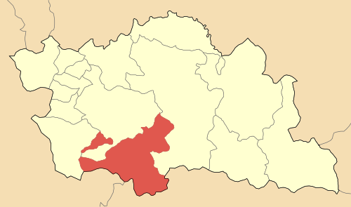 Locator map of Gorgianis municipality (Δήμος Γόργιανης) at Grevena perfecture, Greece.